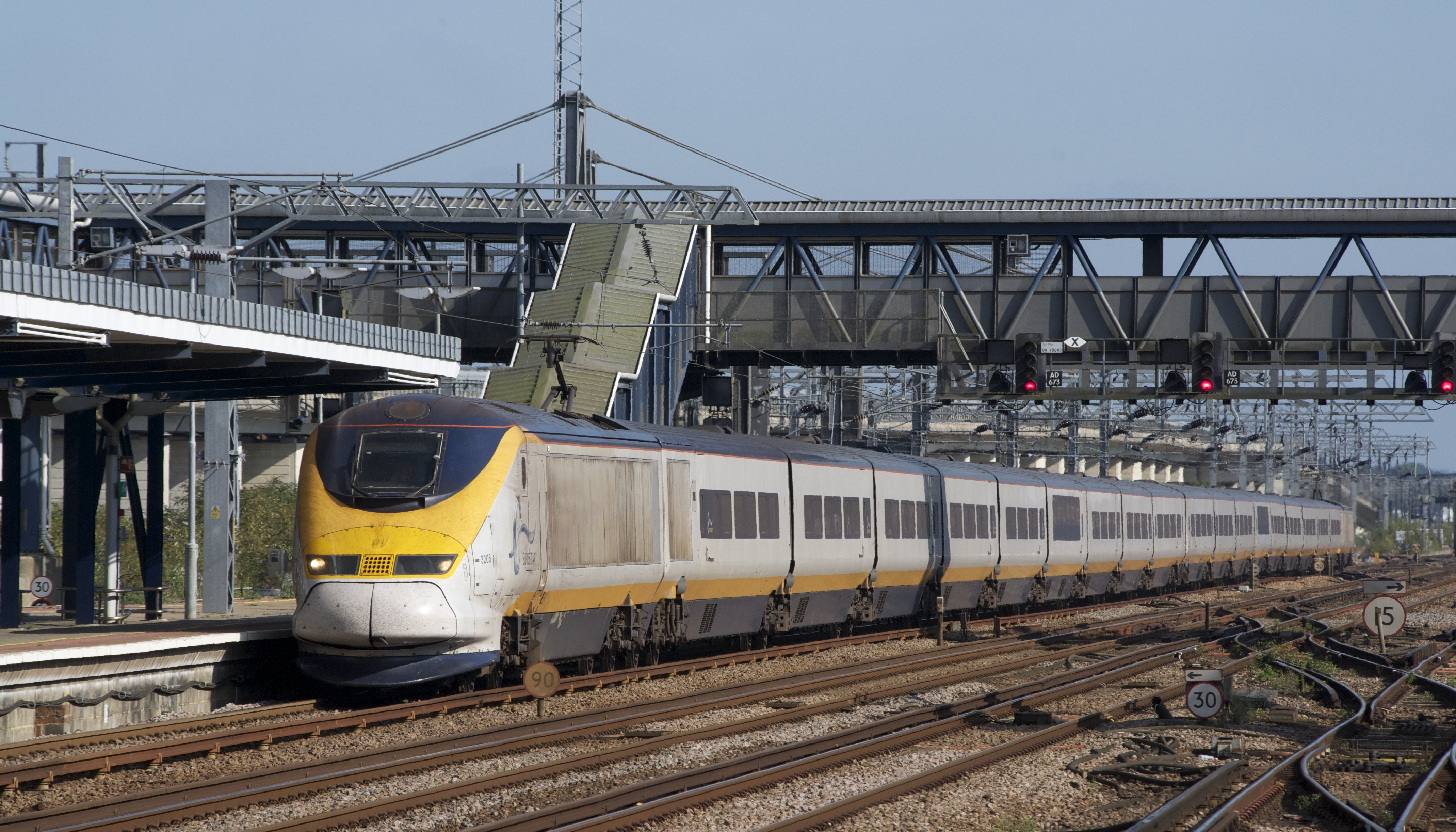 9O39 1513 Paris Nord to St Pancras International